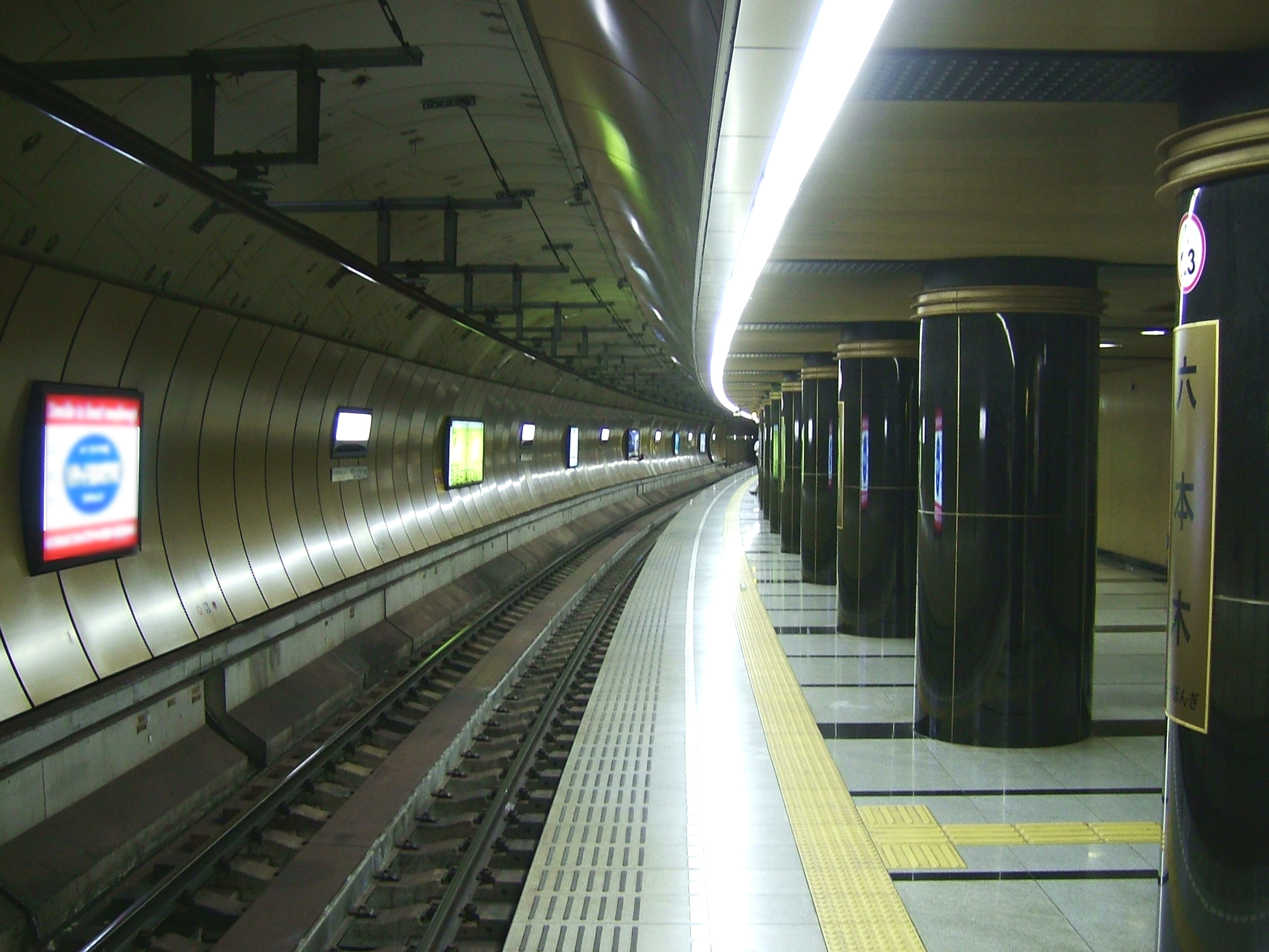 The no.1 platform for counter-clockwise train at Roppongi Station on the Toei Ōedo Line in Minato city, Tokyo, Japan